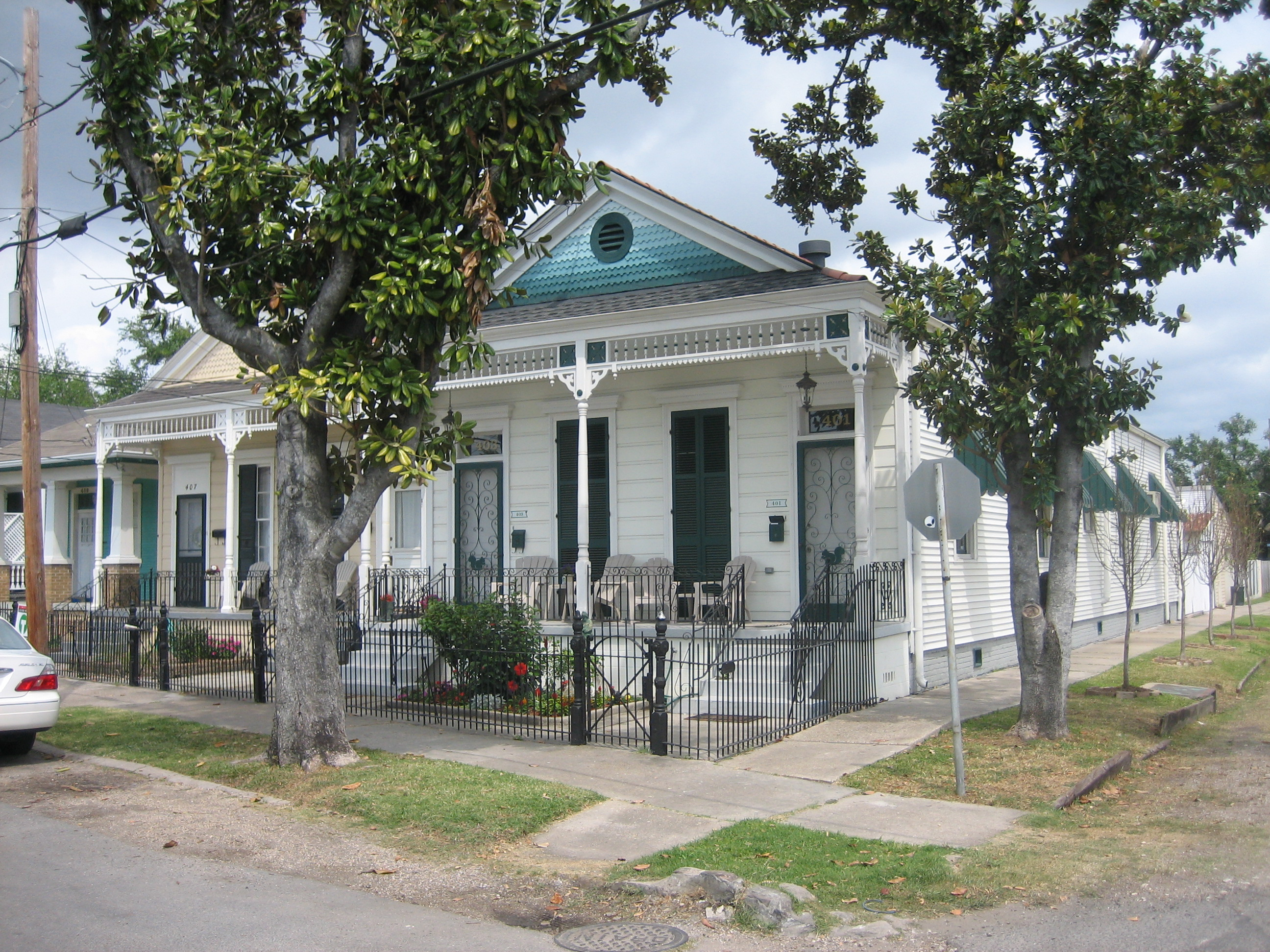 New Orleans: corner double house, Uptown. Photo by Infrogmation of New Orleans